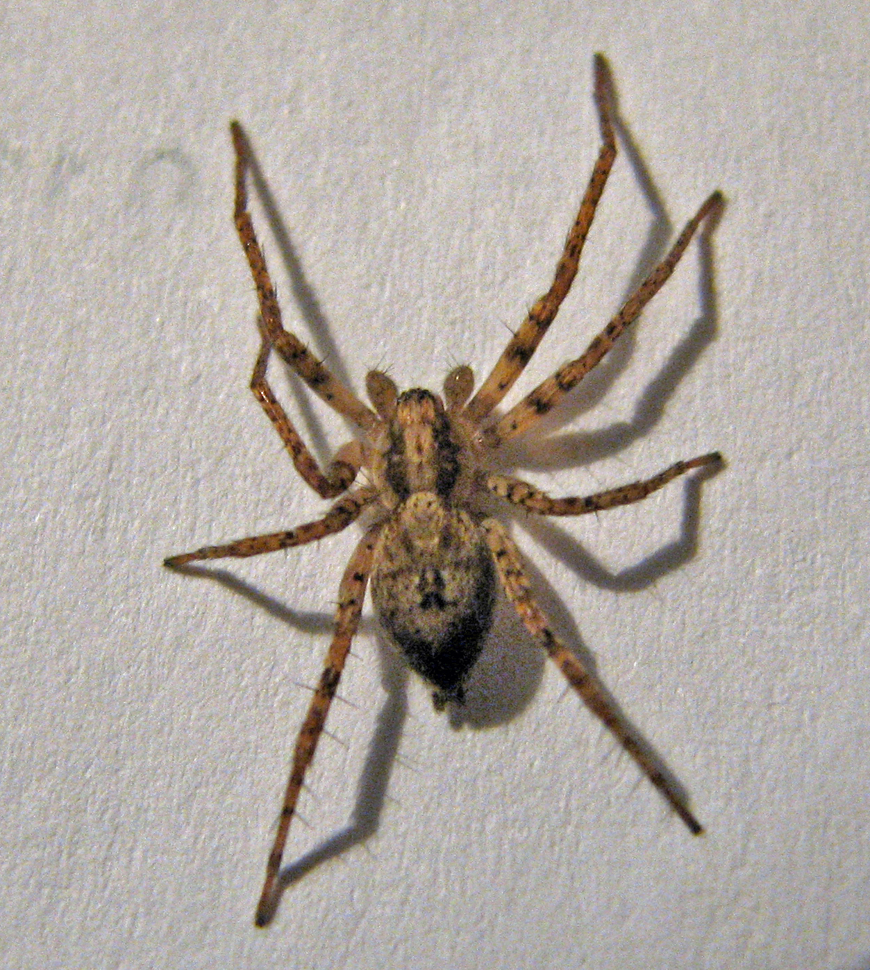 Anyphaena accentuata, young male, Graz (Austria)